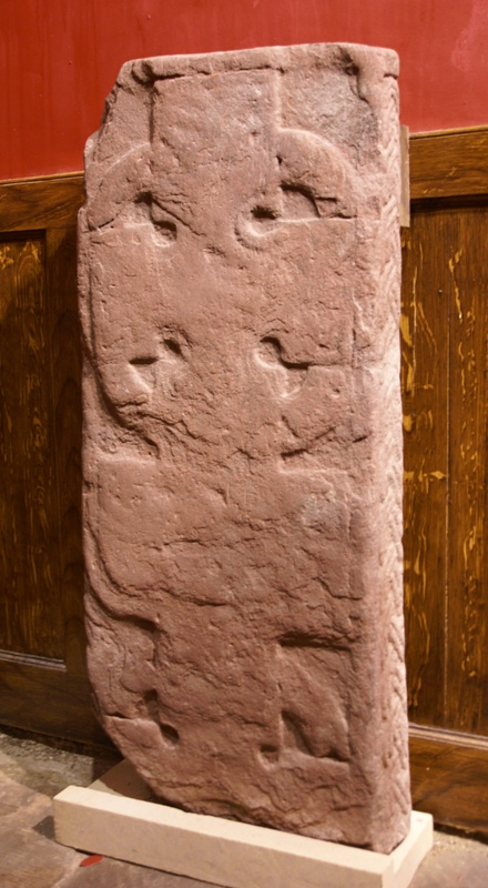 St Serf's Church, Dunning, Perth and Kinross, Scotland - 9th century cross slab